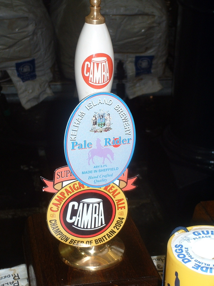 The Champion Beer of Britain pump clip awarded to Kelham Island Pale Rider at the Great British Beer Festival in 2004.